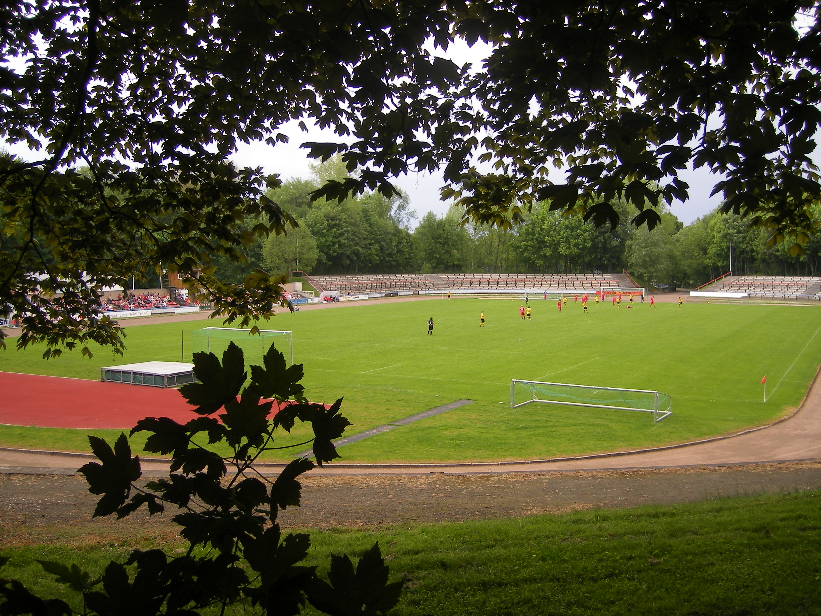 Football stadium Skatbankarena in Altenburg/Thuringia